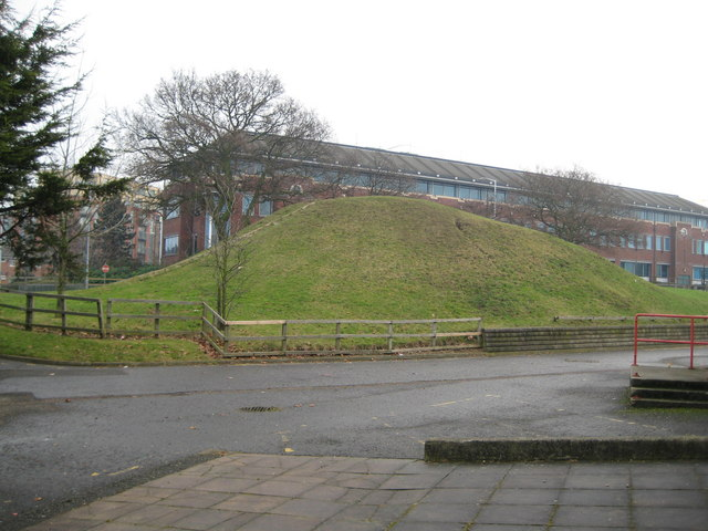 Slough: Montem Mount or Mound The 1881 Ordnance Survey map describes this earthwork as The Mount, a Supposed Barrow. At that time the Mount was the main feature in the hamlet of Salt Hill. The urban sprawl of Slough had yet to consume it. However the mound's main claim to fame is that until 1844 it was the destination of the Eton Montem when every Whit Tuesday the boys of Eton College 345572 marched, army-style, to the location collecting 'salt' or money from visitors and passers-by. The ceremony dated back until at least 1561 and was regularly patronized by Royalty. In its later years it became a triennial event, with the tickets to the 1838 event costing one shilling. However in 1844 the masters of the College decided that the boys should be studying rather than indulging time in making their Montem costumes, decided that the ceremony was anachronistic and should be abandoned forthwith. In truth the real reason for its demise was that with the advent of the railways the ceremonies of 1841 and 1844 had attracted rowdy crowds brought by train from London, and the authorities feared that a serious riot could break out in a subsequent event. The Times, reporting the 1844 event tongue-in-cheek, described the crowd as "mixed"... Evidently the hoi-polloi were not to be welcomed. One wonders what would happen today if the ceremony was to be revived...!